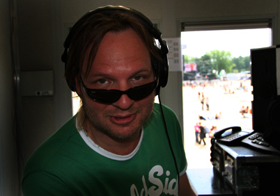 Yorin FM, Rockin Park 2005